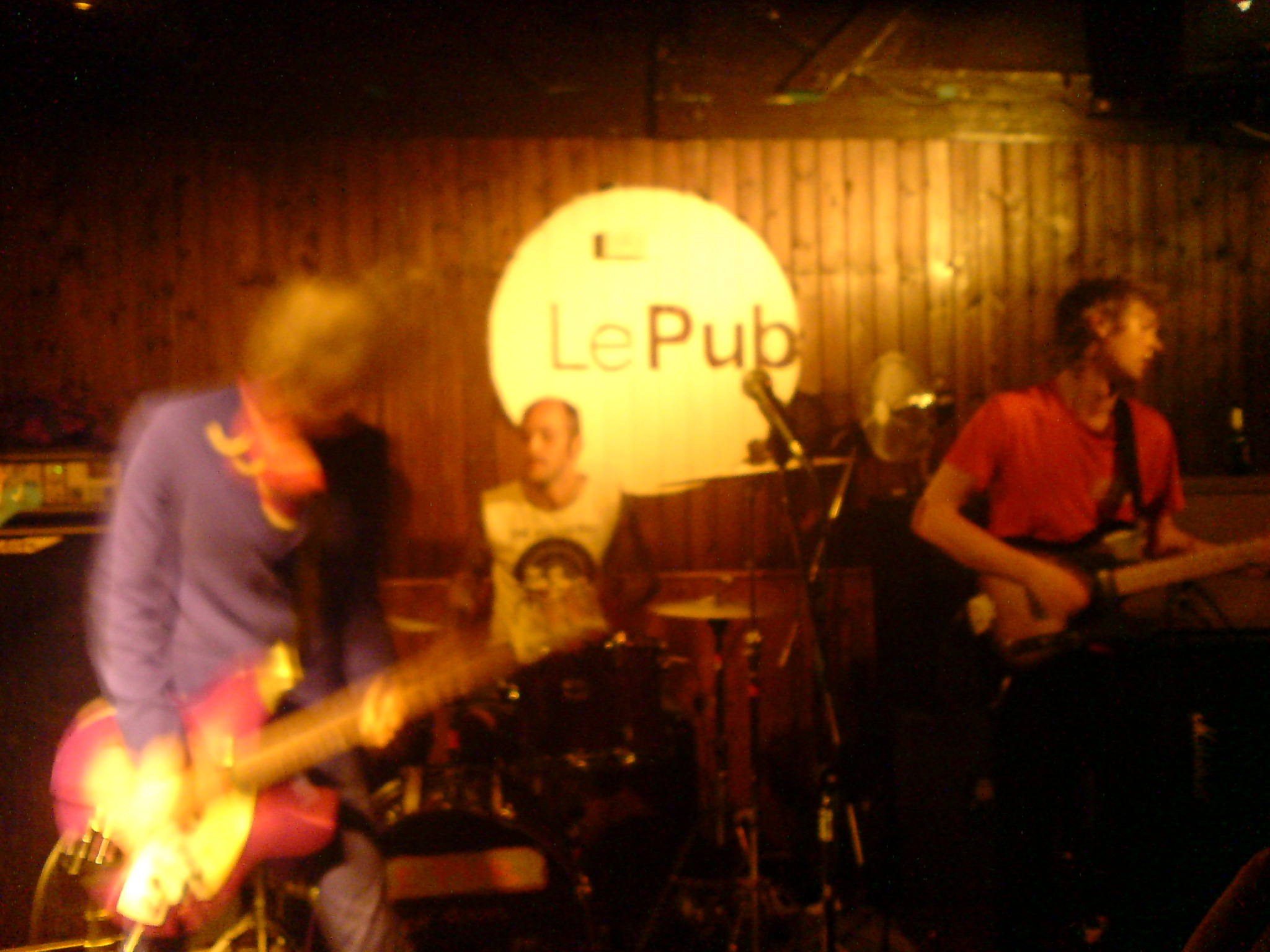 Lost Patrol Band live in Newport